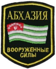 Coat of arms of Army of Abkhazia